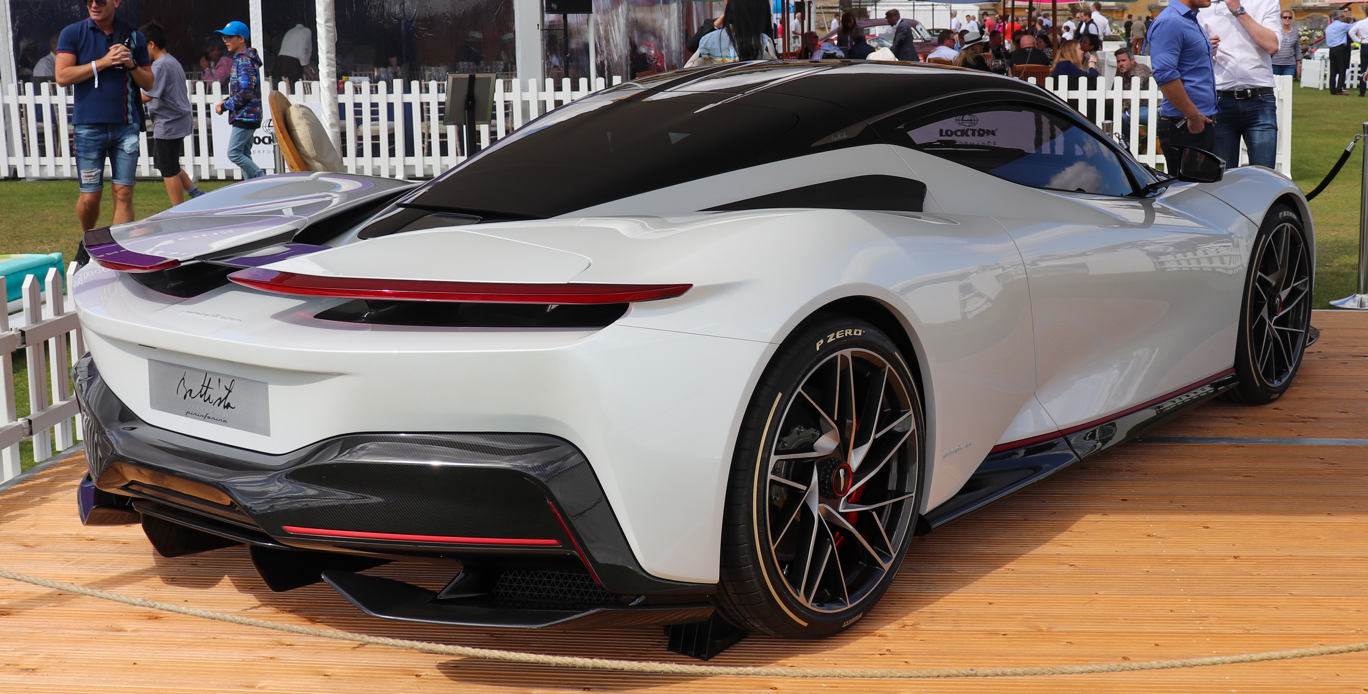 2019 Automobili Pininfarina Battista Rear Taken at the Salon Privé Concours d'Elegance Classic Car Motor Show 2019, Blenheim Palace